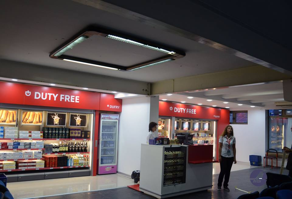 Freeshop at Nis Airport